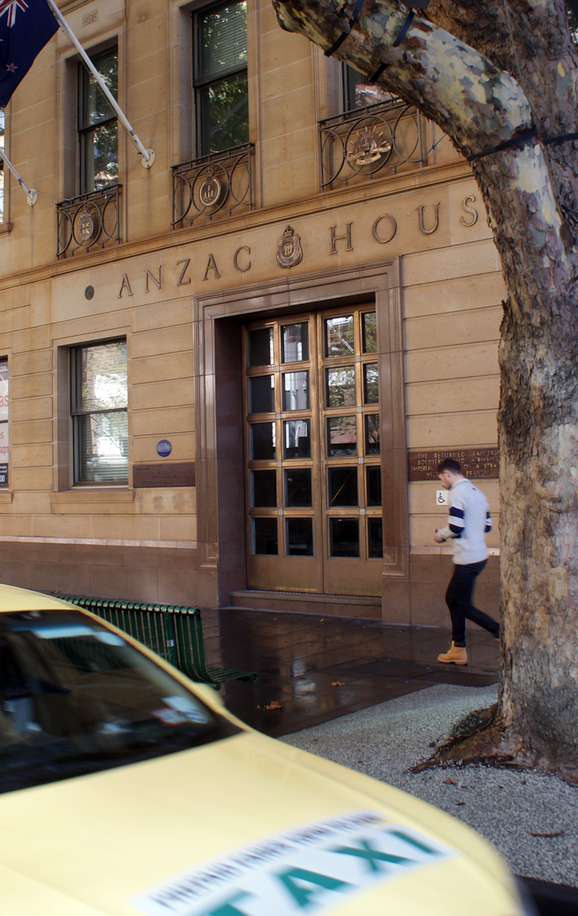 The ANZAC house functions as a library and memorabilia collection for war time diaries, letters and other paraphernalia.